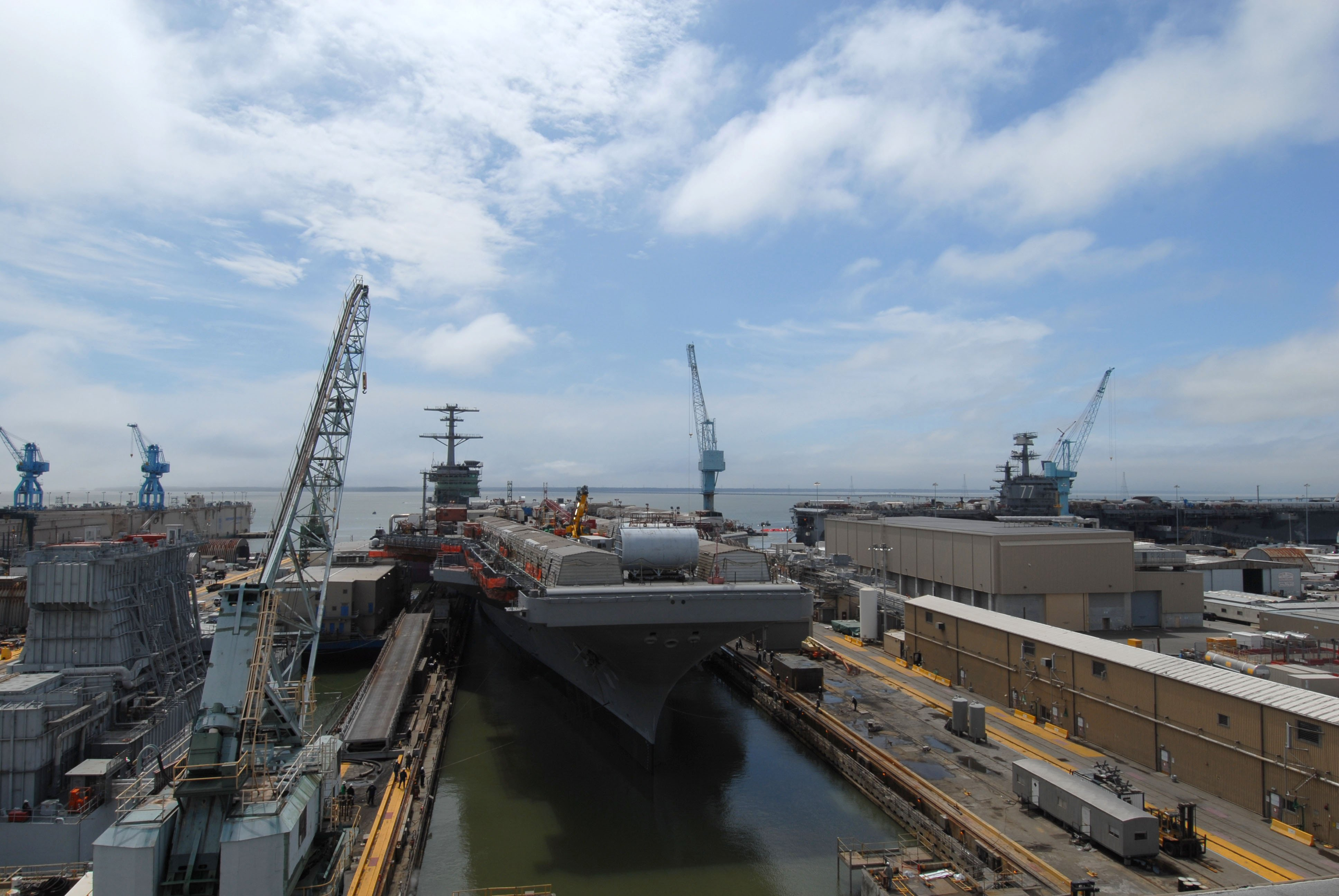 Tug boats pull USS Carl Vinson (CVN 70) out of dry dock as the aircraft carrier transits down the James River to a pier-side docking at Northop Grumman Newport News Shipyard in Virginia May 9, 2007. Carl Vinson is currently undergoing its scheduled refue ling complex overhaul, an extensive yard period that all Nimitz-class aircraft carriers go through near the mid-point of their 50-year life cycle. (U.S. Navy photo by Mass Communication Specialist 3rd Class Myriam Padilla) (Released)